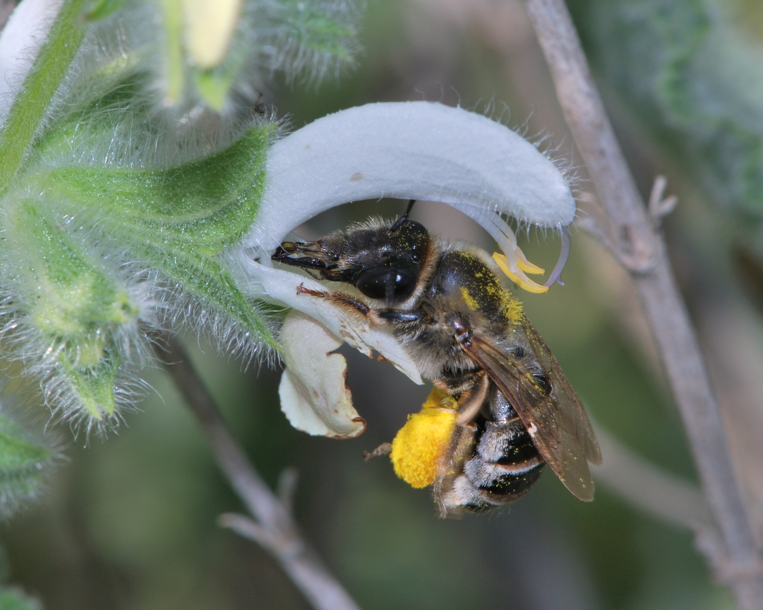 Eucera kullenbergi Tkalců 1978, female collecting nectar and pollinating a flower of Salvia dominica, Judean Foothills, Israel, April 10, 2011.